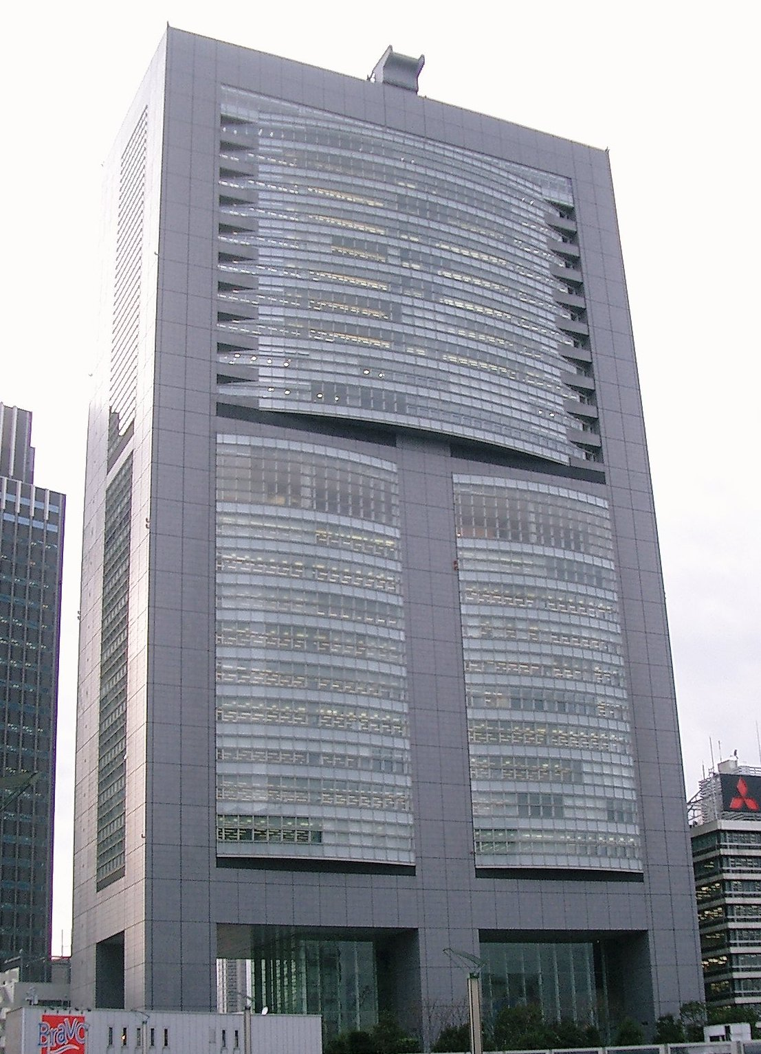 the main office of East Japan Railway Company